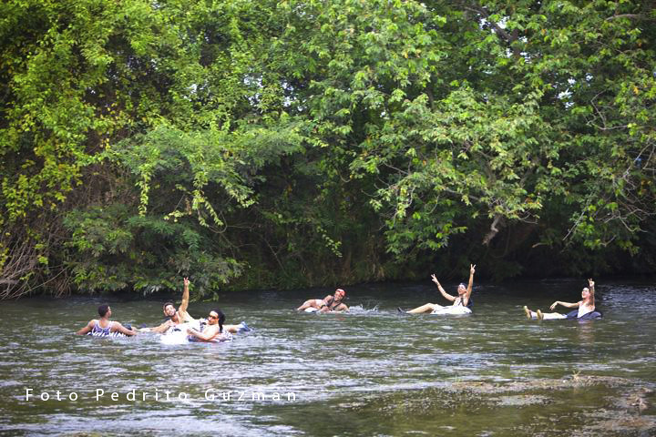 Rio yaque del norte river in Mao Valderde, Dominican Republic